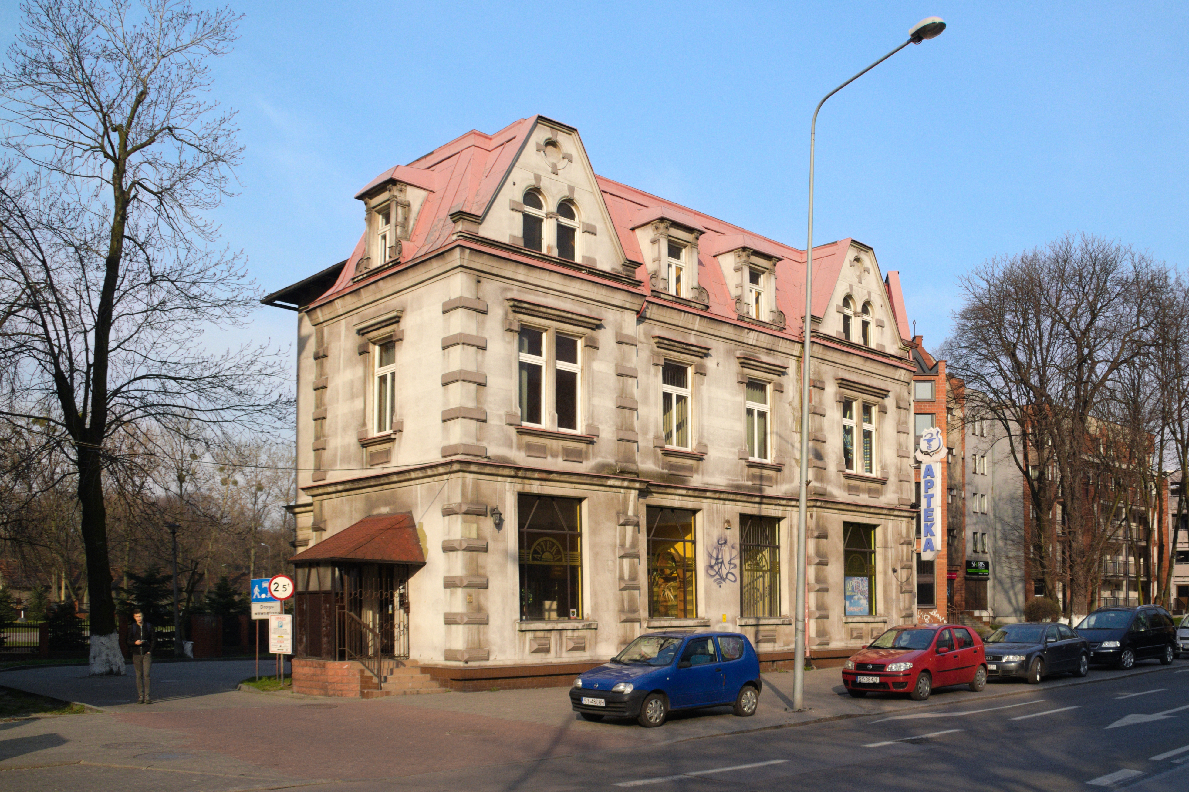 villa in Bytom, Strzelcow Bytomskich 25 Street, cultural heritage monument, end of the 19th century